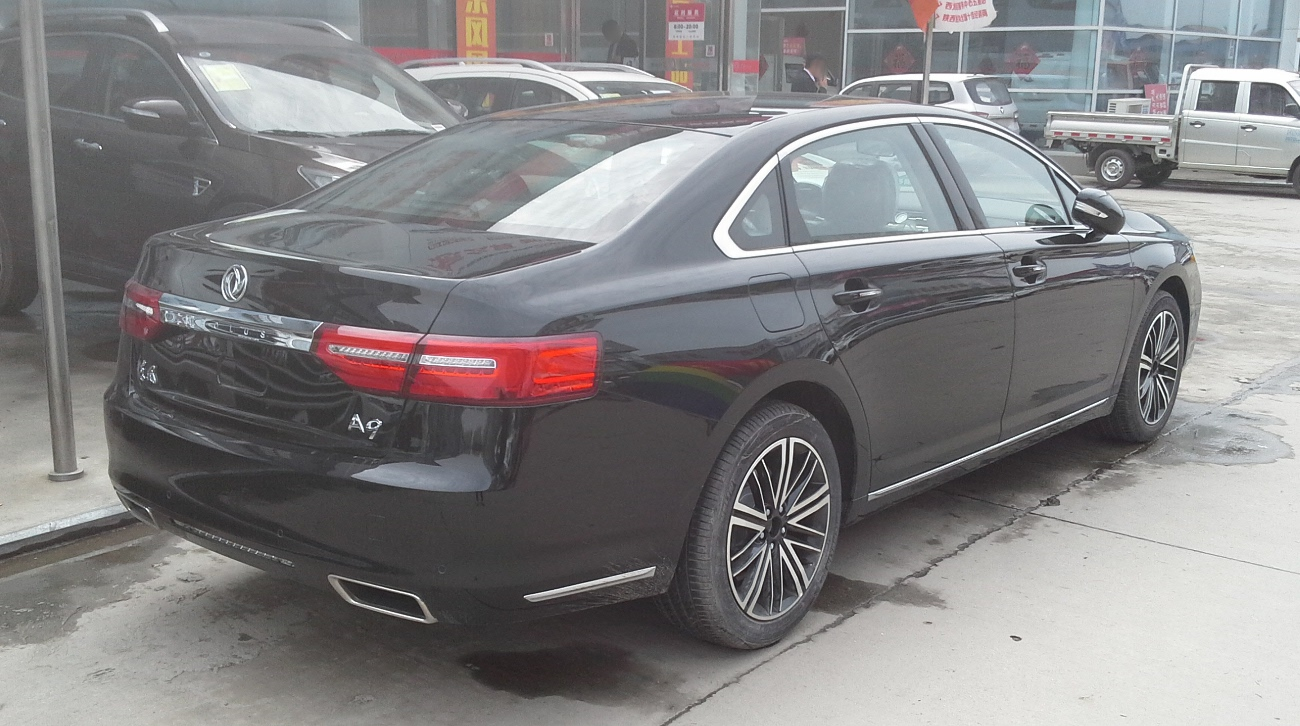 Dongfeng Aeolus A9 photographed in Xi'an, Shaanxi province, China.